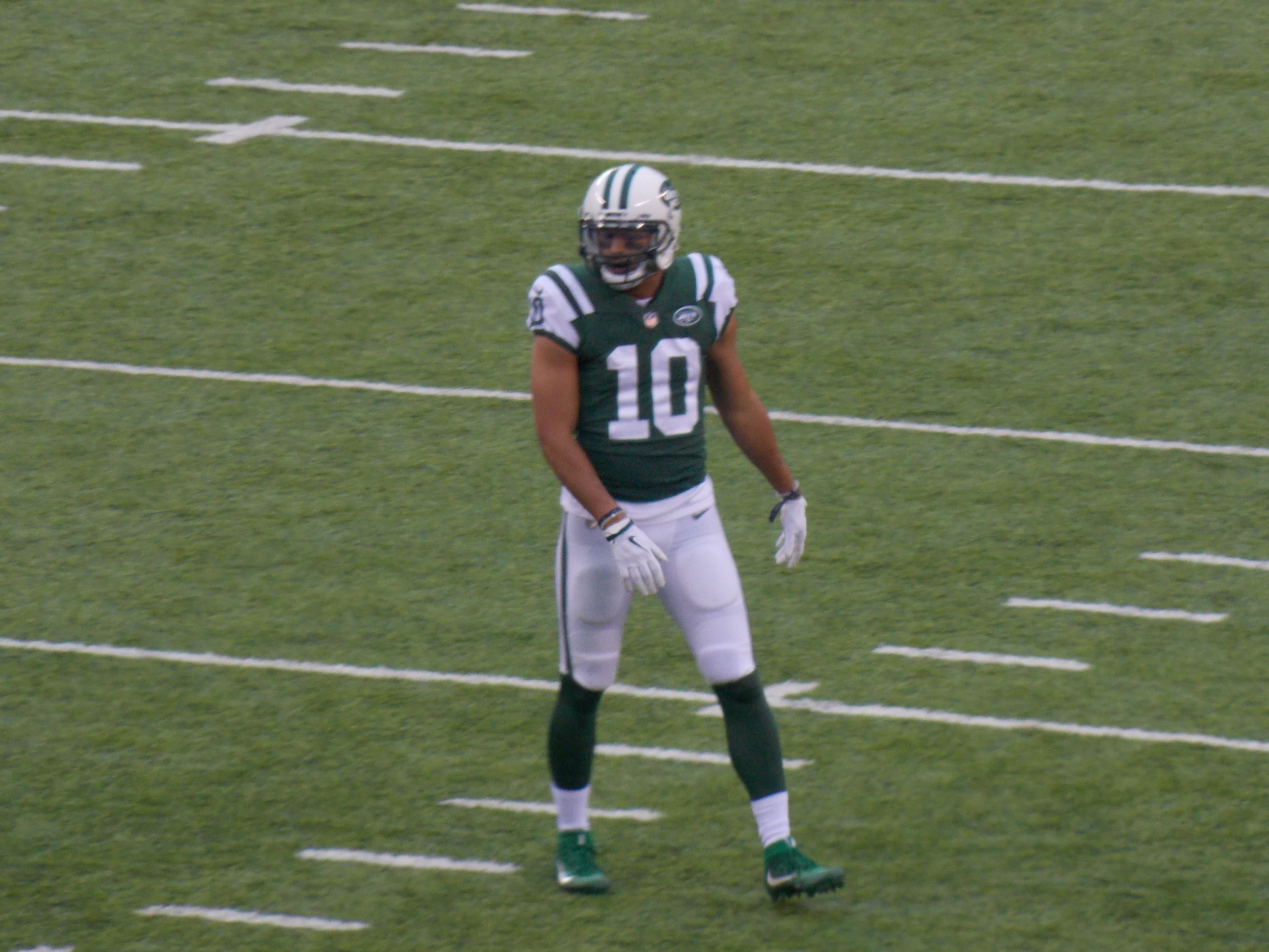 jermaine kearse with the jets 12/03/2017